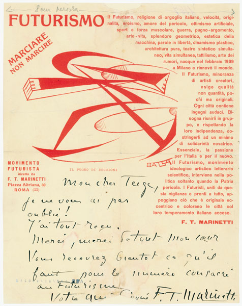 Dopis F. T. Marinettiho Karlu Teigovi